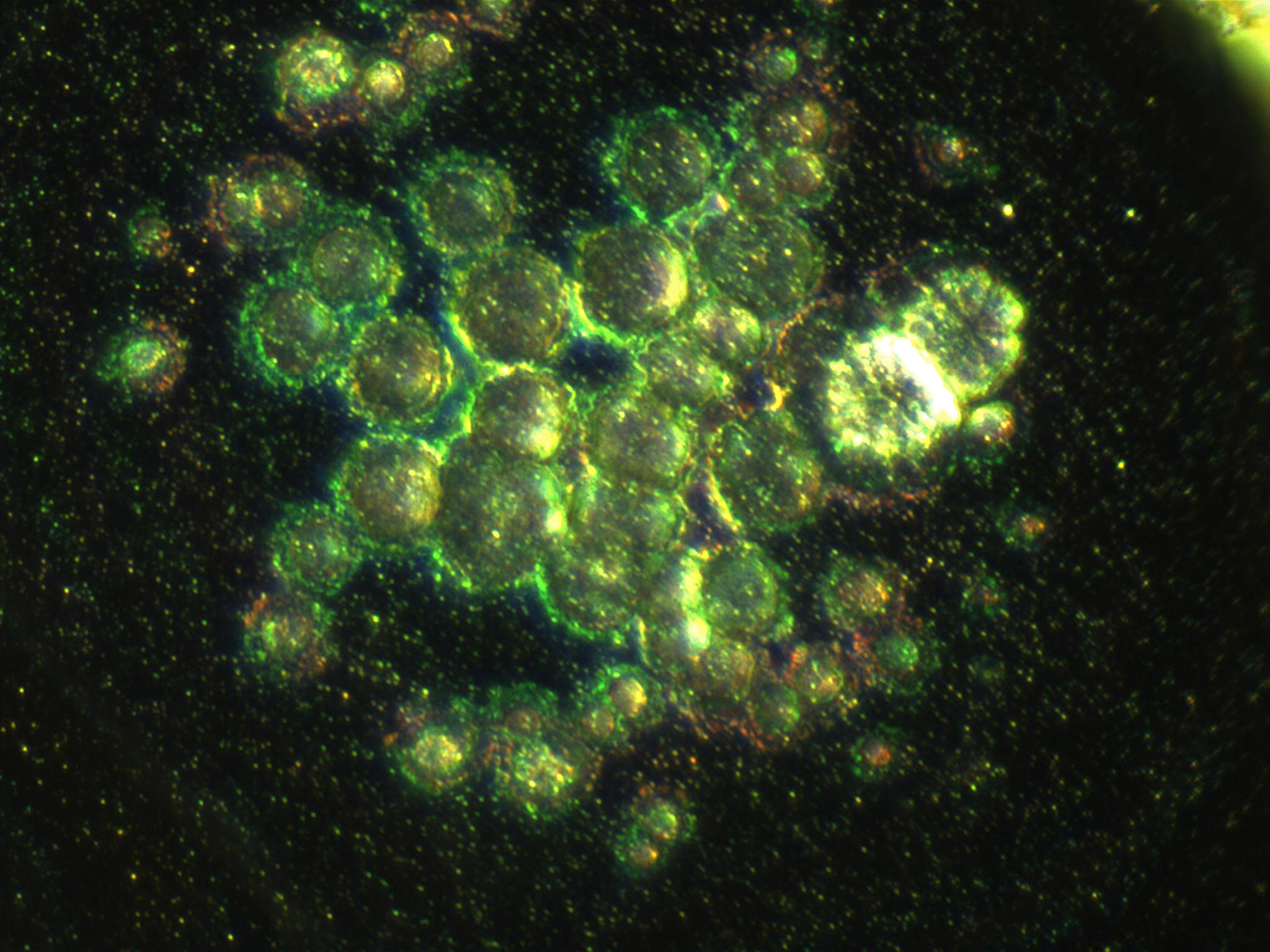 Nickel nebula or nickel corrosion by acid rain.